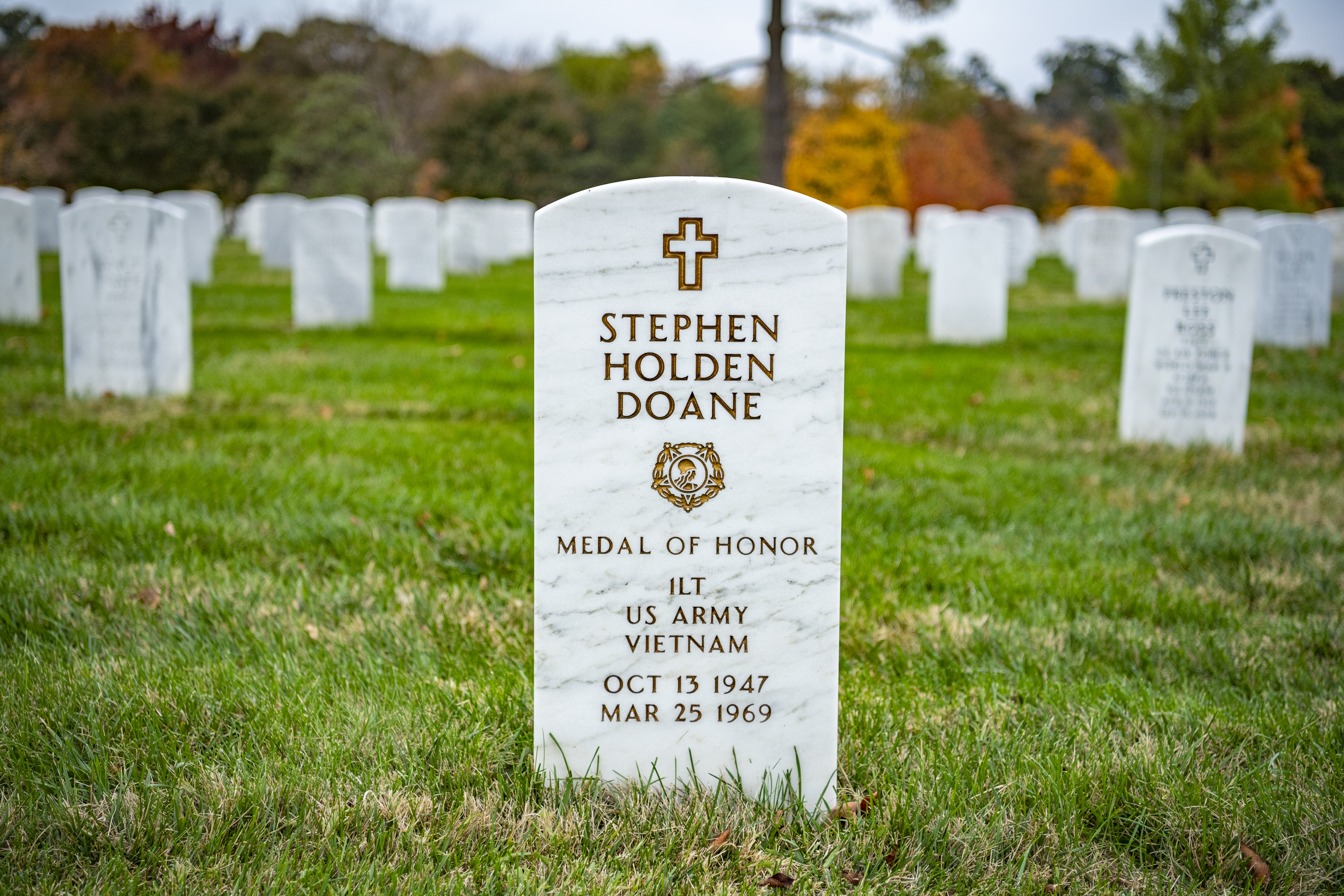 Headstone of U.S. Army 1st Lt. Stephen Doane in Section 59 of Arlington National Cemetery, Arlington, Virginia, Oct. 30, 2019. (U.S. Army photo by Elizabeth Fraser / Arlington National Cemetery / released)